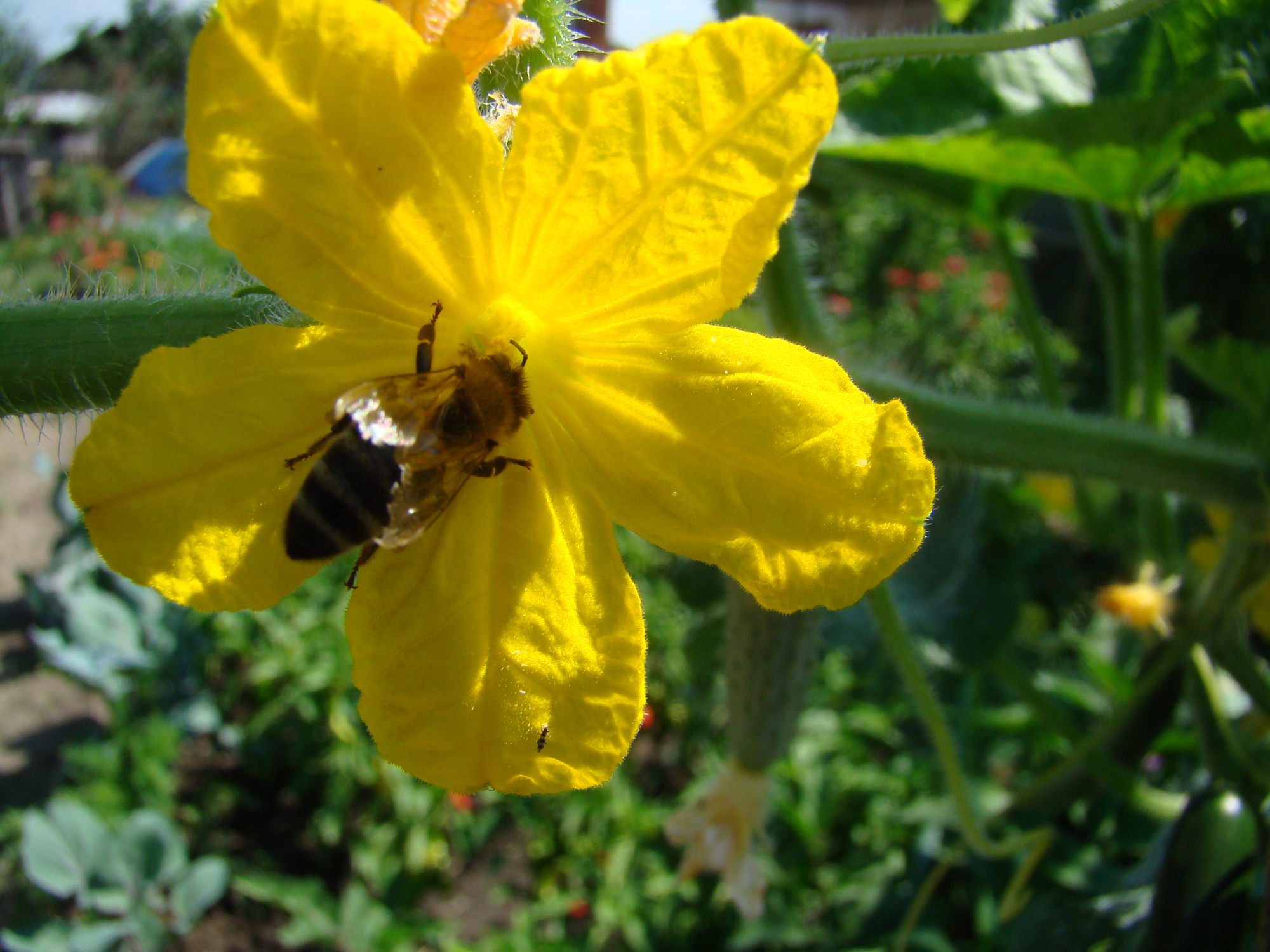 Cucurbita flower with insects